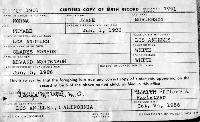 Claimed to be a Birth certificate of Marilyn Monroe, born Norma Jeane Mortenson on June 1, 1926. The birth record was created by a local registrar on June 5, 1926, and this certified copy of that information was issued by a Health Officer & Registrar on October 24, 1955. It was photographed and then used for the 1981 article about the death of her father, Edward Mortensen, as depicted on the certificate. Mother was Gladys Monroe; Monroe was a surname that Marilyn Monroe officially used. According to the original caption: Monroe's film studio, 20th Century Fox, stated that her father died when she was a baby but this certificate shows that Edward Mortensen, who had claimed to be her father, was alive until 1981.